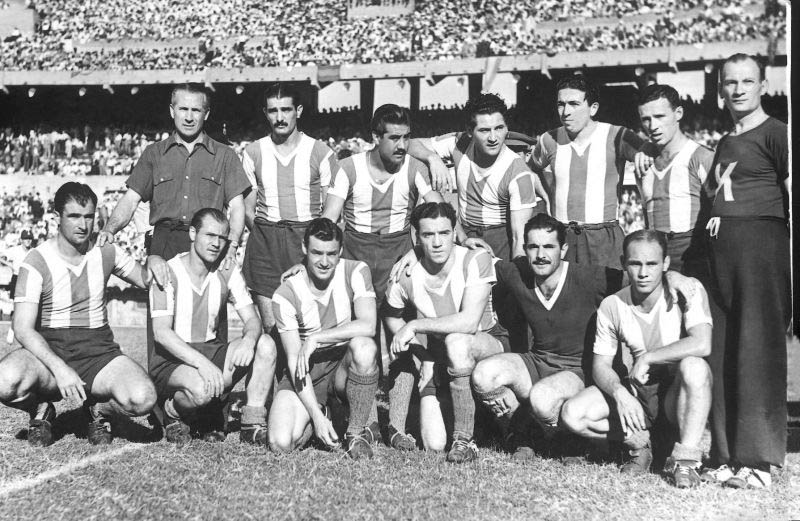 The Argentina national team that won the Sudamericano (current "Copa América") held in Buenos Aires, after beating Brasil 2-0 in the final. (Upper row): Guillermo Stábile (coach), Vicente De la Mata, Norberto Méndez, Adolfo Pedenera, Angel Labruna, Félix Loustau. (down): Salomón, Sobrero, Fonda, Strembel, Claudio Vacca (GK), Natalio Pescia.